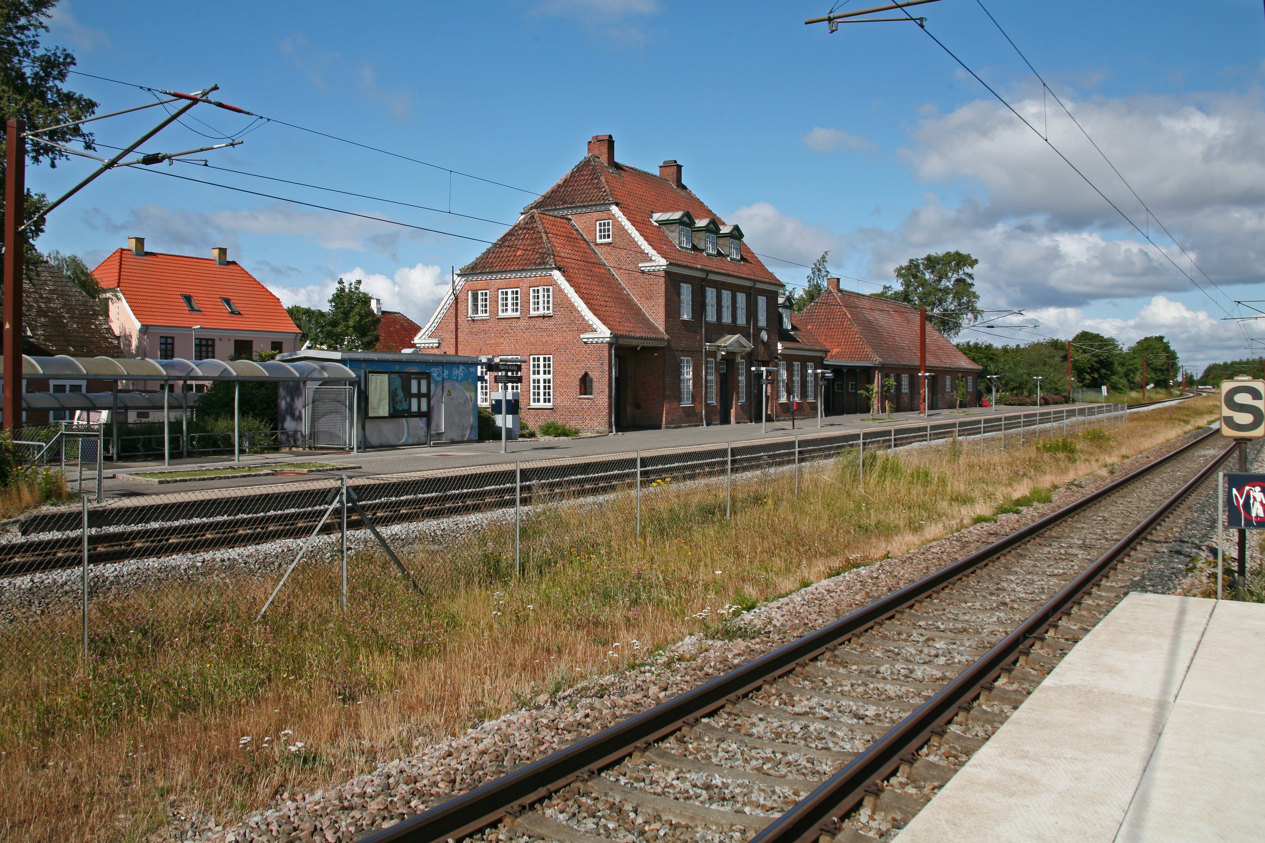 Picture of Nørre_Aaby Railway Station (Fyn - Denmark)